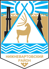 Nuzhnevartovsk rayon (Khanty-Mansia), coat of arms